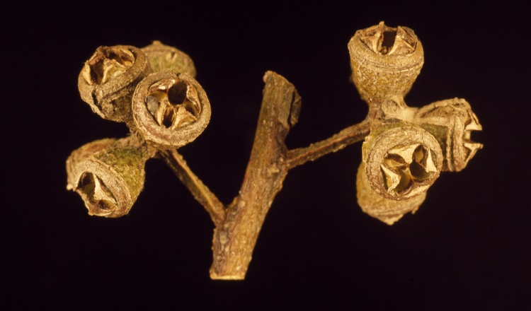 Fruit of Eucalyptus globulus sibsp. maidenii